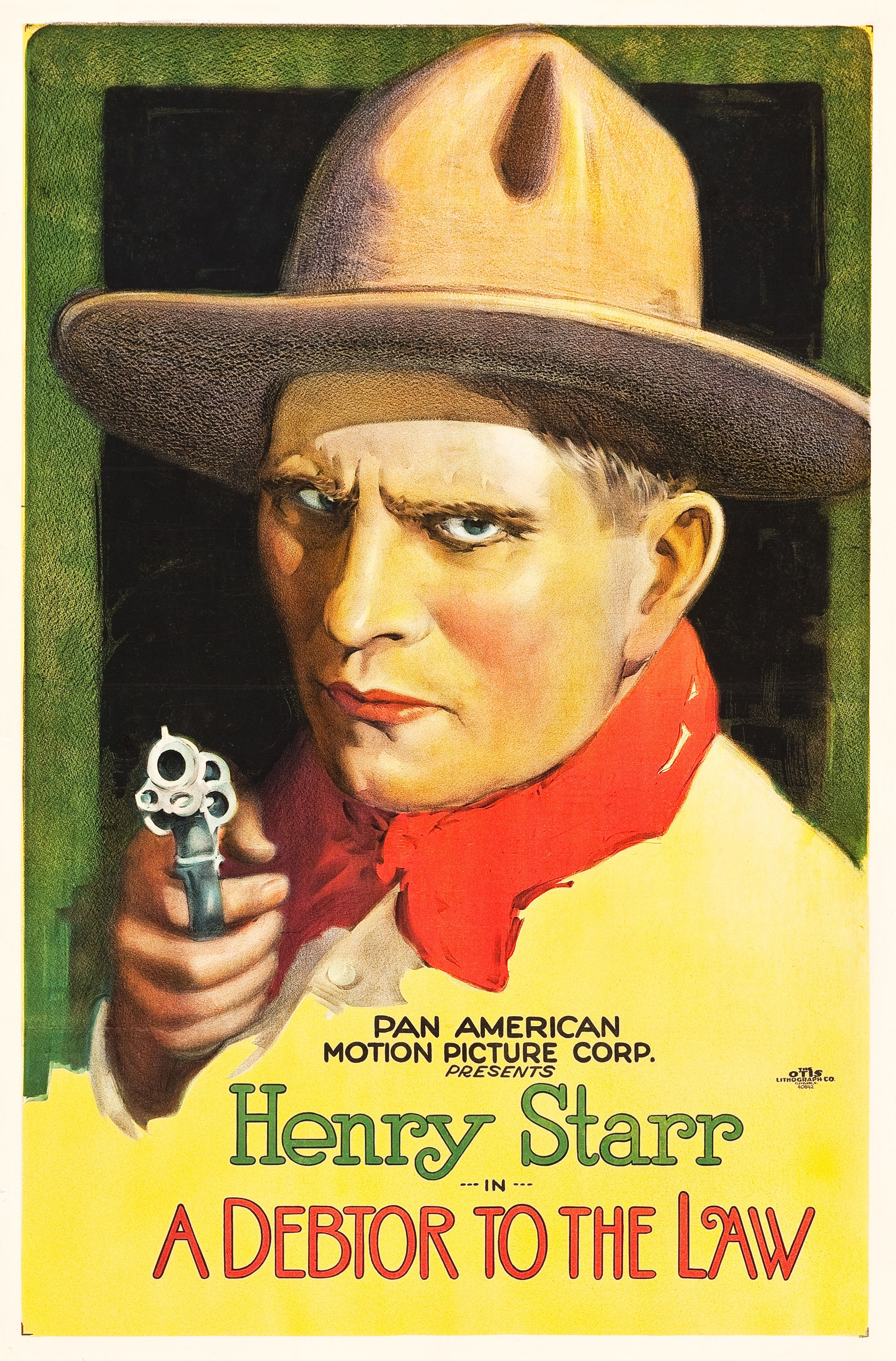 Movie poster for the American western film A Debtor to the Law (1919).